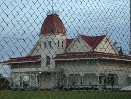 I took this picture. {GFDL} 08:13, 8 April 2005 . . Fleizach . . 533x400 (59535 bytes) (Picture of the Royal Palace in the Kingdom of Tonga. ) Name of file changed to more descriptive. On en: it is "Normal DSCN0228.JPG"